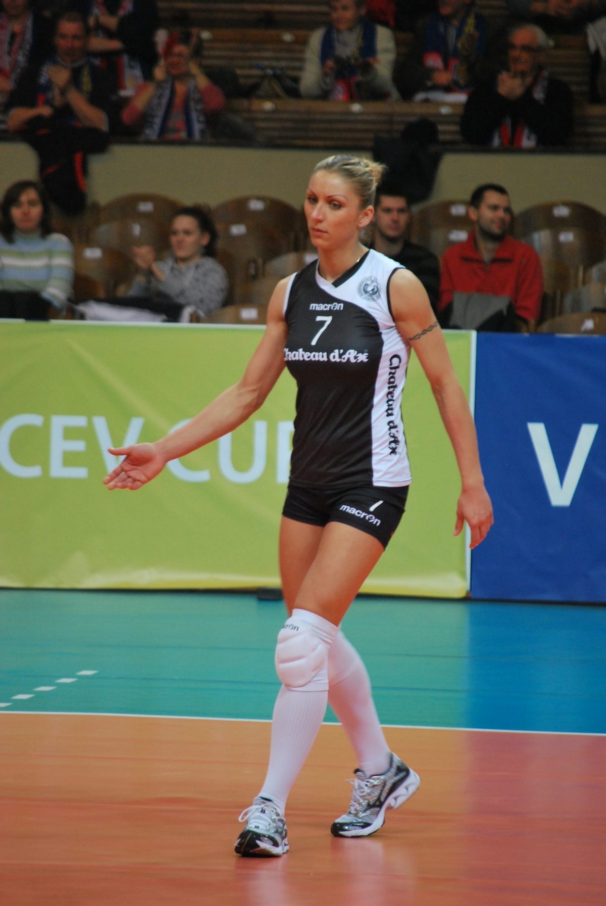 Valdonė Petrauskaitė, lithuanian volleyball player